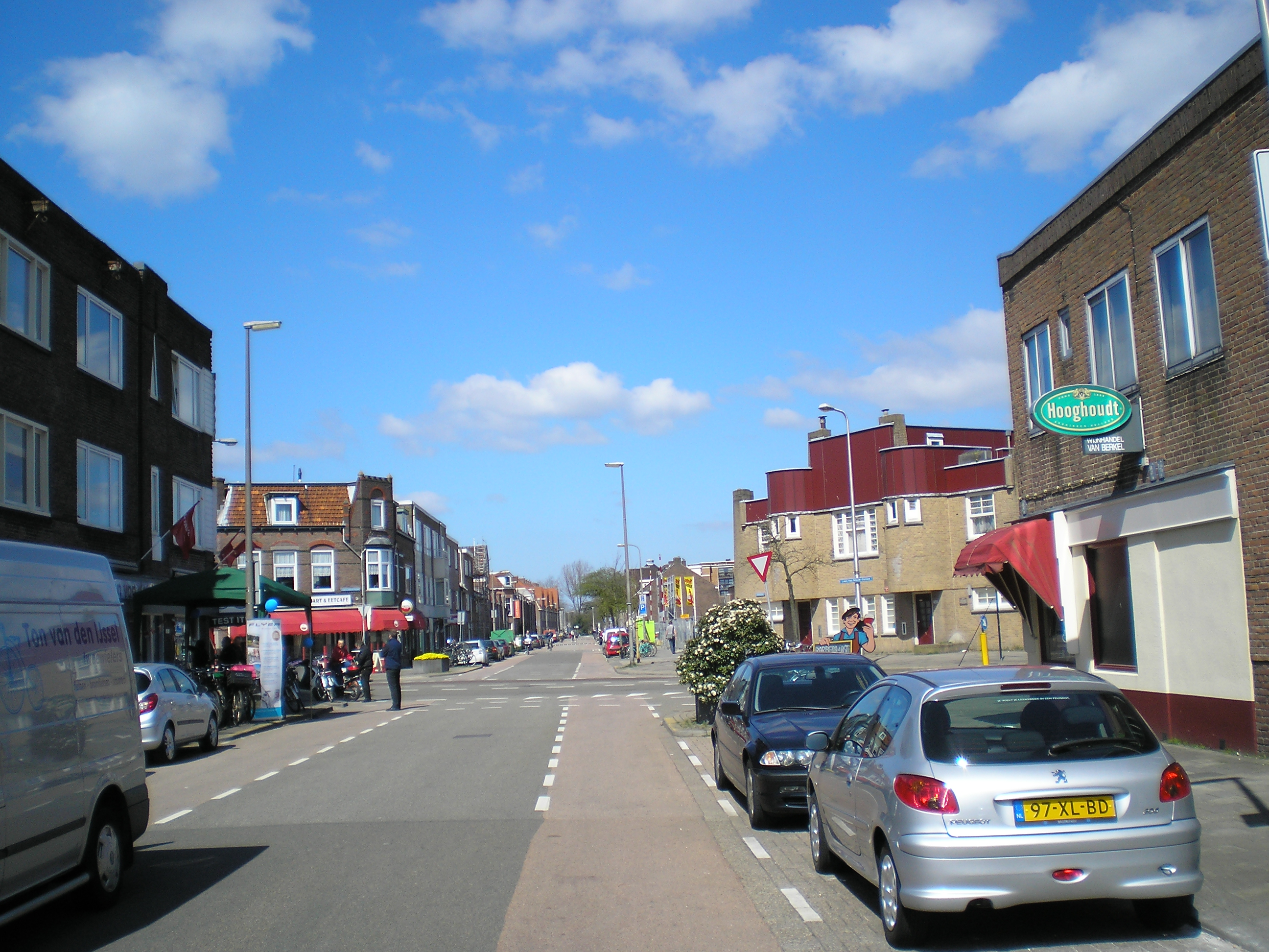 Groeneweg in Utrecht in the Netherlands